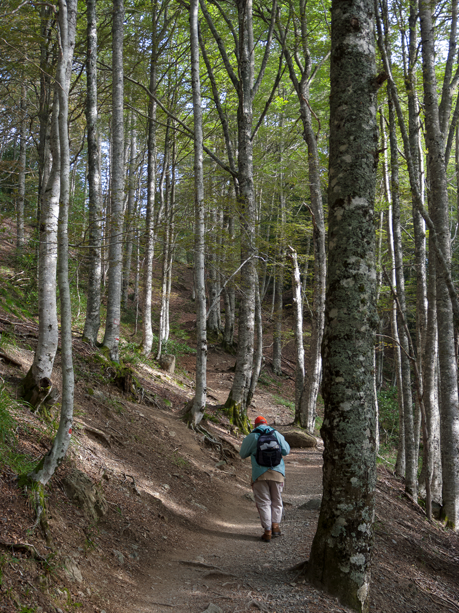 Valle de Bujaruelo This is a photography of a Site of Community Importance in Spain with the ID: ES2410006. Natura2000 entry, EEA entry